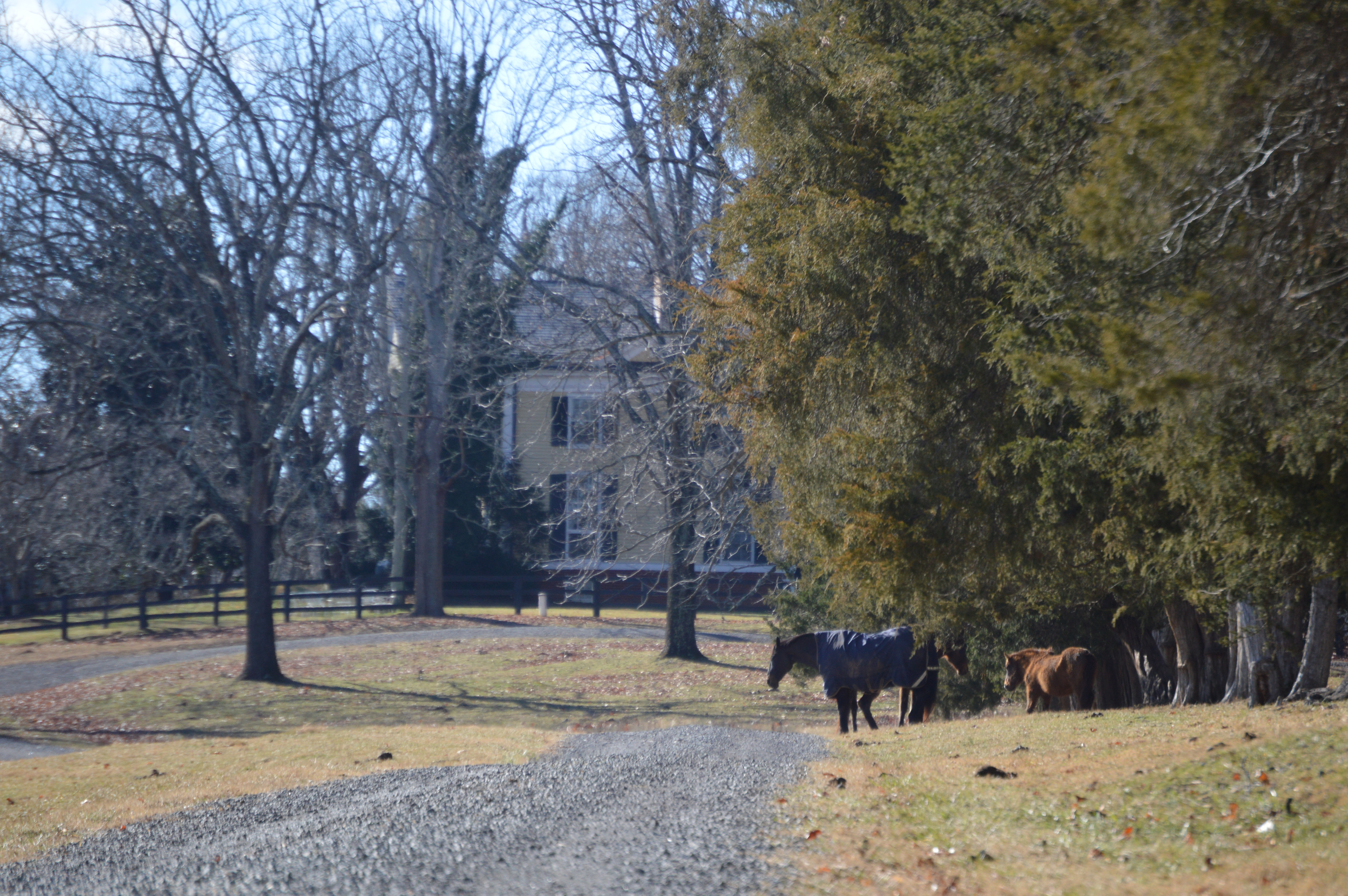 Northern side of Brampton, located off Forest Drive east of the crossroads of Five Forks in Madison County, Virginia, United States. Built in 1846, it is listed on the National Register of Historic Places.